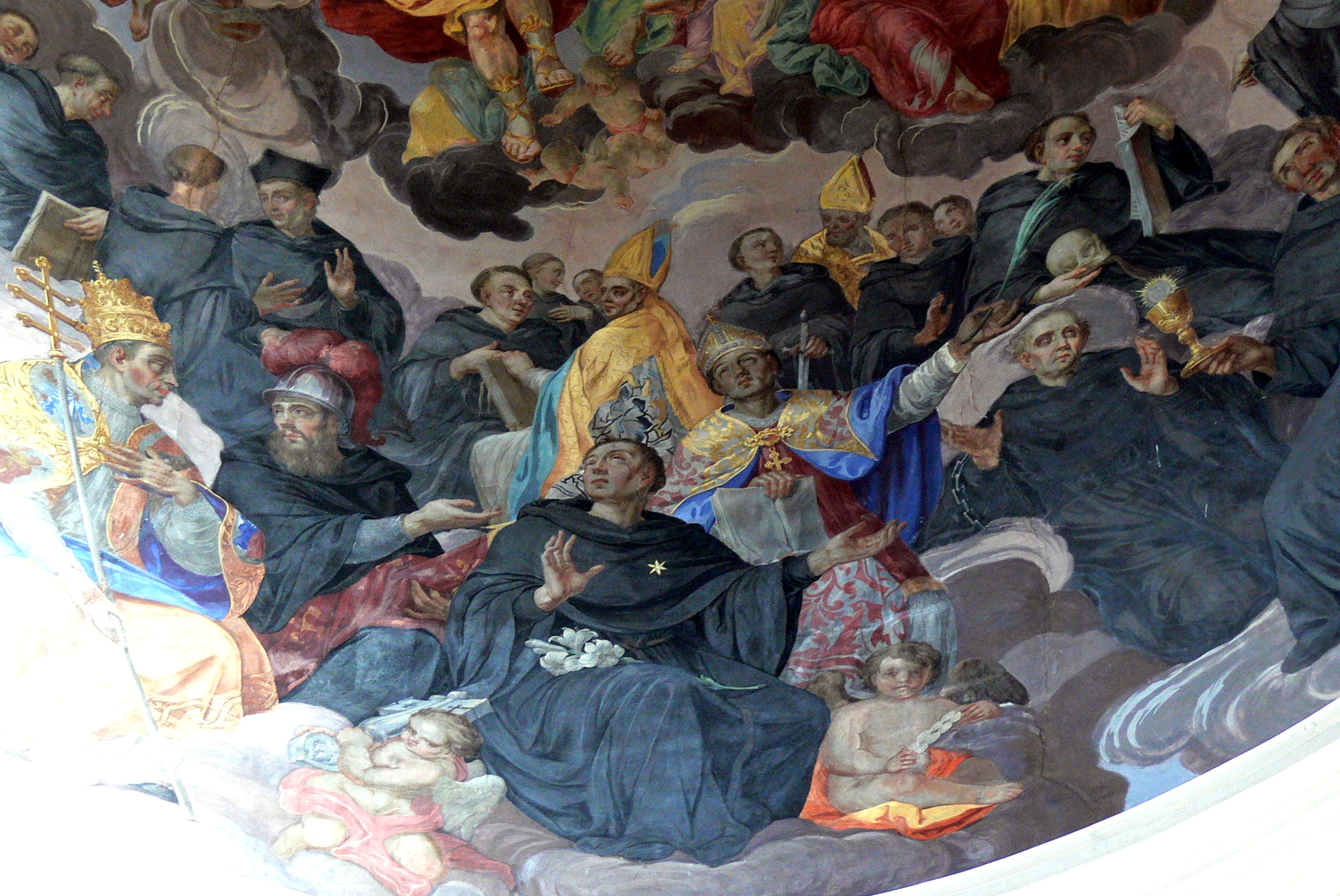 Rattenberg (Tyrol). Saint Augustine church - Dome ( 1708 ) painted by Johann Joseph Waldmann: Saints of the Augustine order.